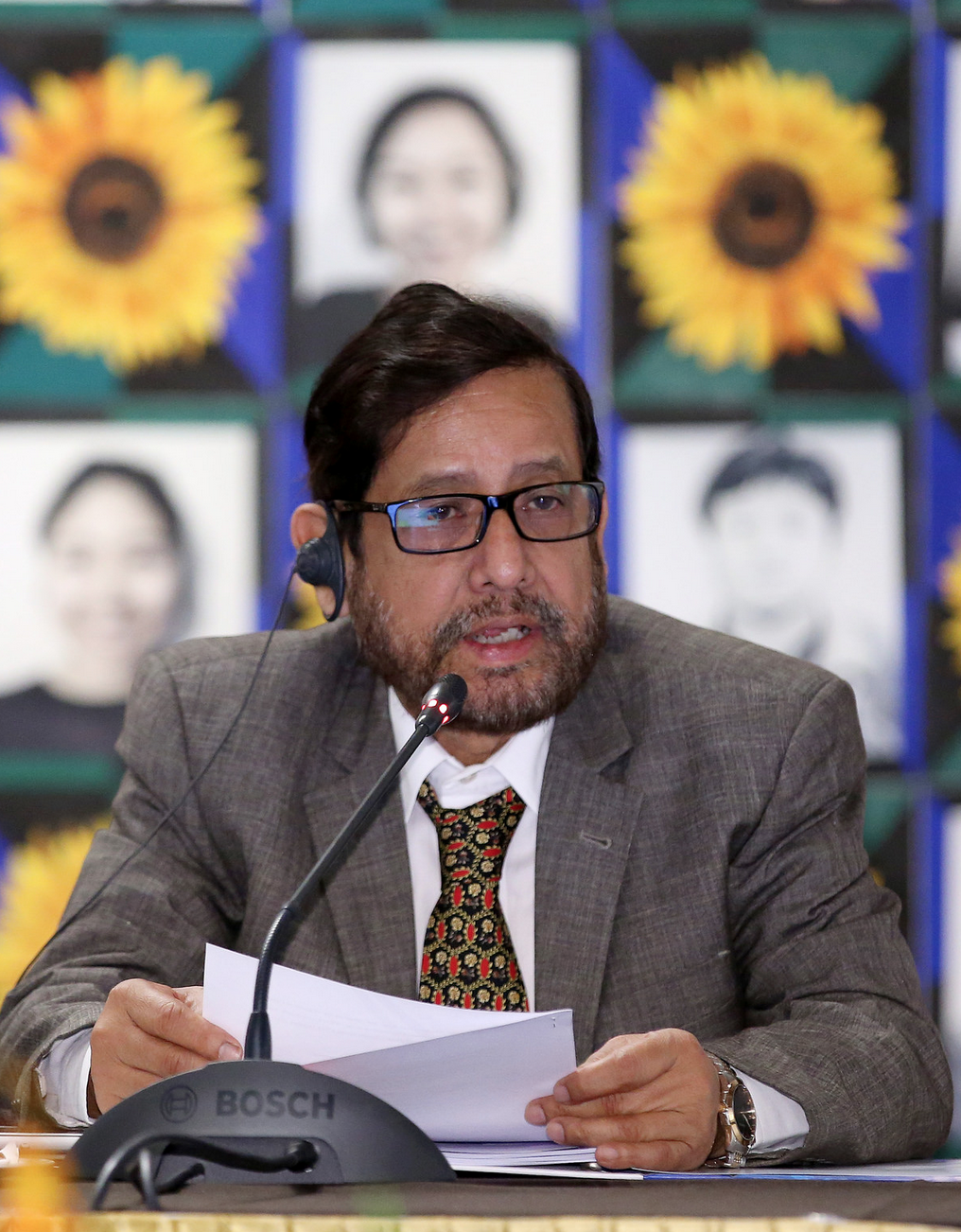 Asaduzzaman Noor in Korea 2014